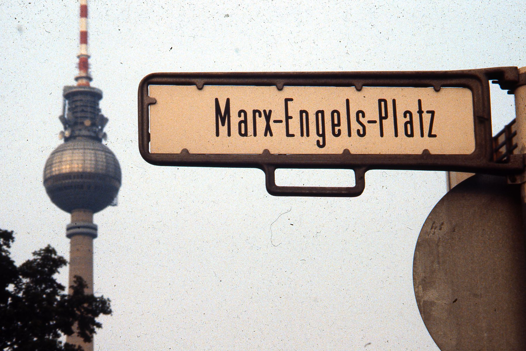 East Berlin street sign for Marx-Engels-Platz and television tower, 1984 Other information Photo by George Garrigues.